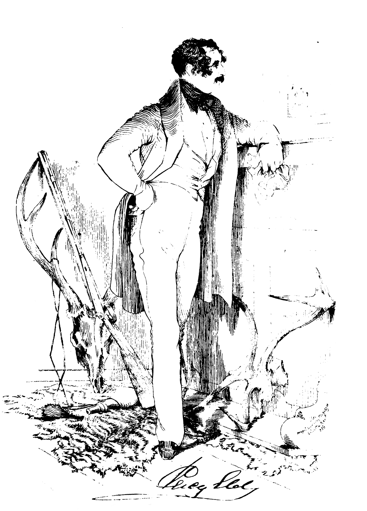 Lt. Percy Eld